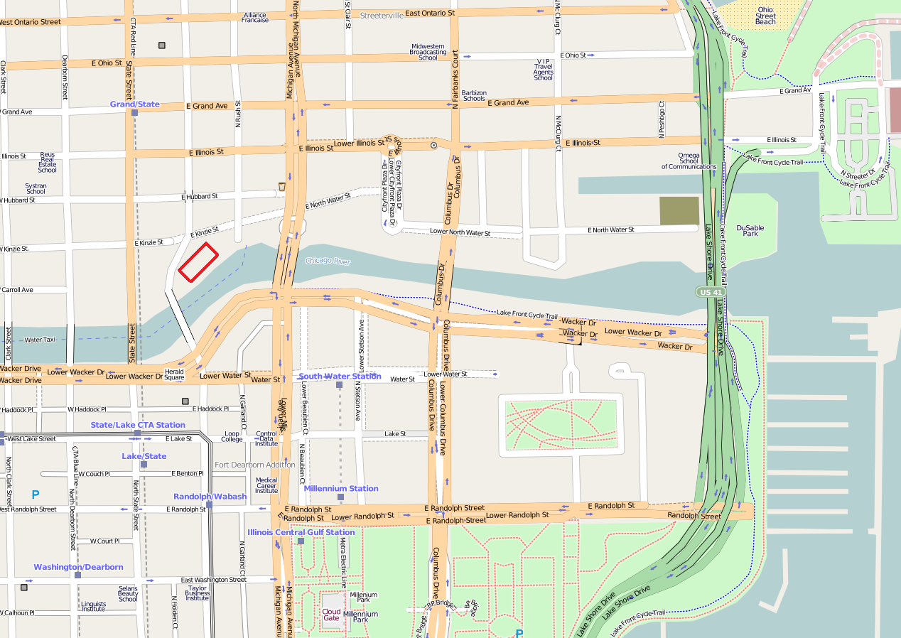 Map of Trump International Hotel and Tower (Chicago) location along Chicago River This map may be incomplete, and may contain errors. Don't rely solely on it for navigation.